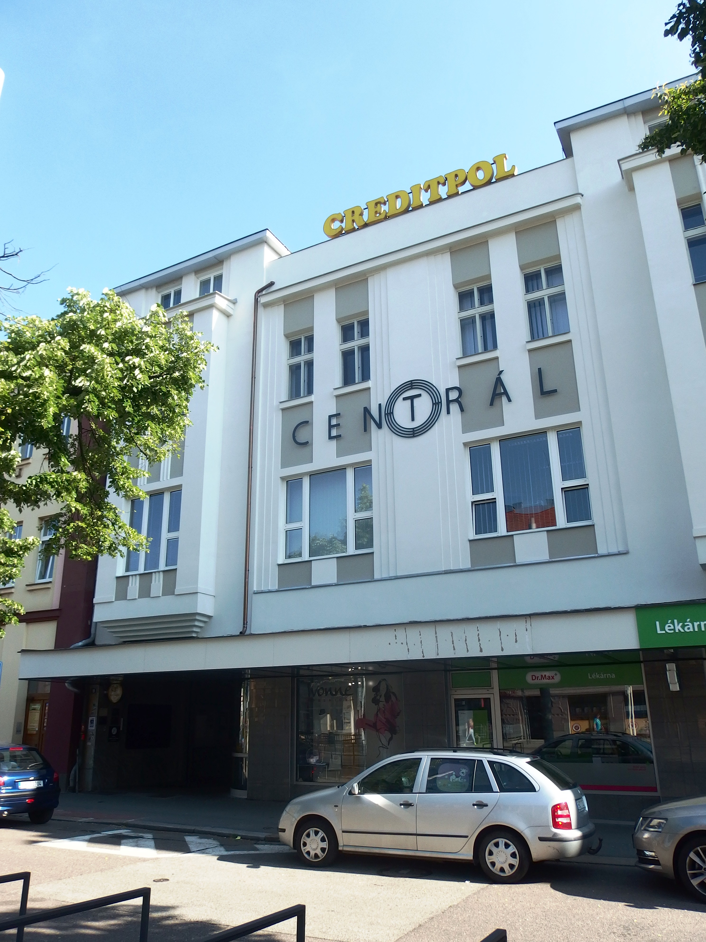 Hradec Králové, Czechia.